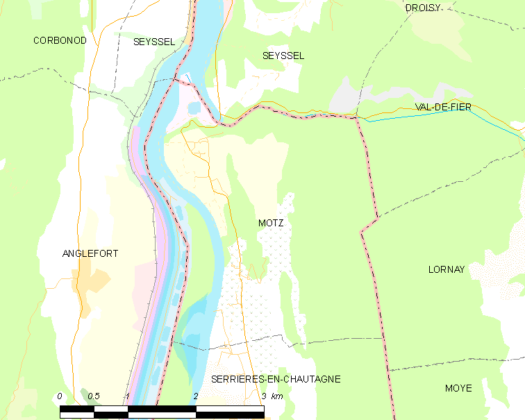 Map of French municipality